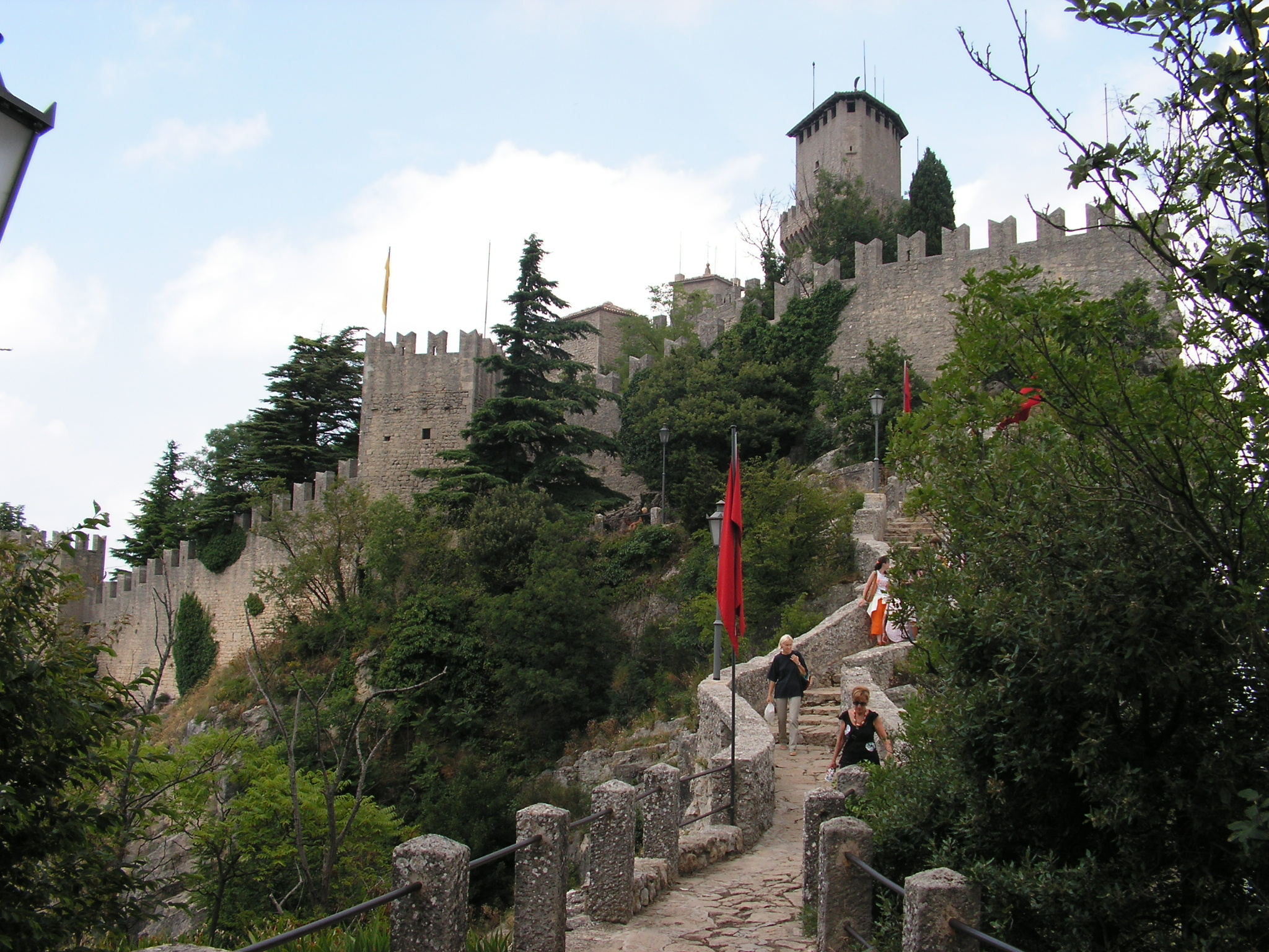 A clear view of the Second Castle (La Cesta o Fratta) on Mount Titano in San Marino